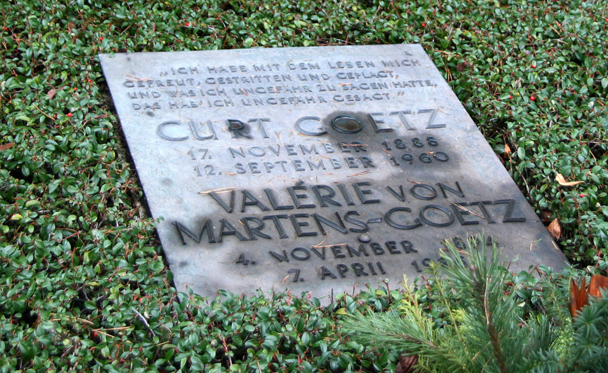 Tomb of Goetz in Berlin